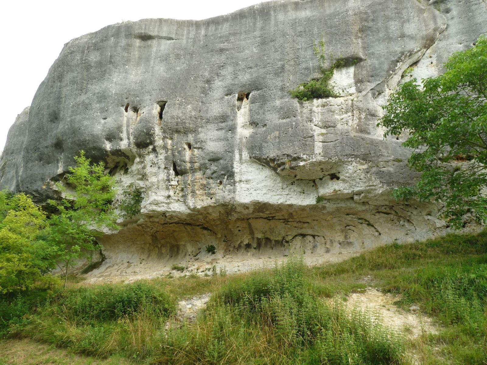 Climbing cliffs of Eaux-Claires valley at Puymoyen, Charente, SW France